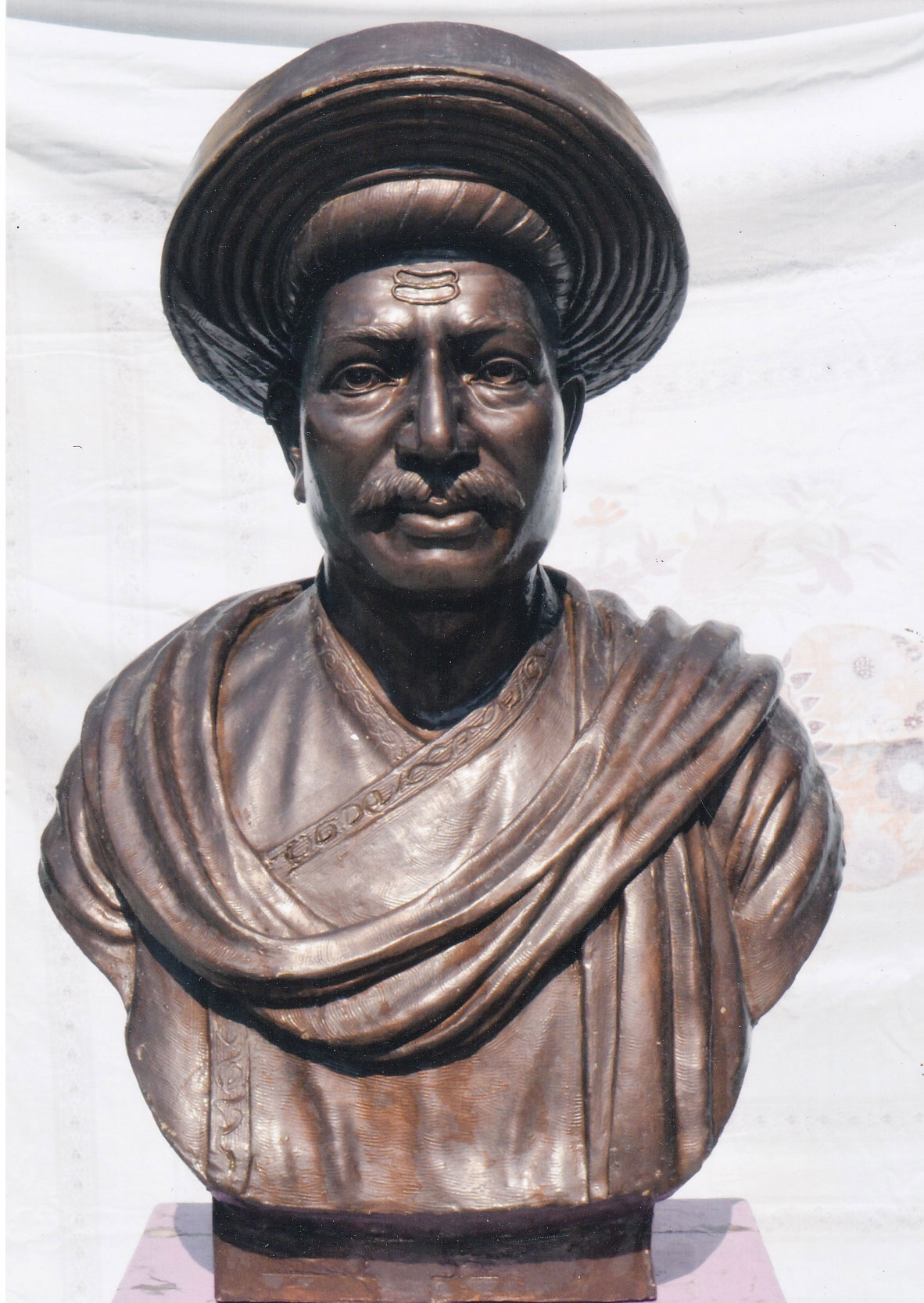 Ramchandrapant Amatya Statue at Maisaheb Bavadekar